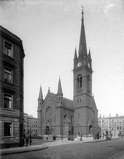 Church of the Holy Cross in Leipzig-Neustadt, Neustaedter Markt 8